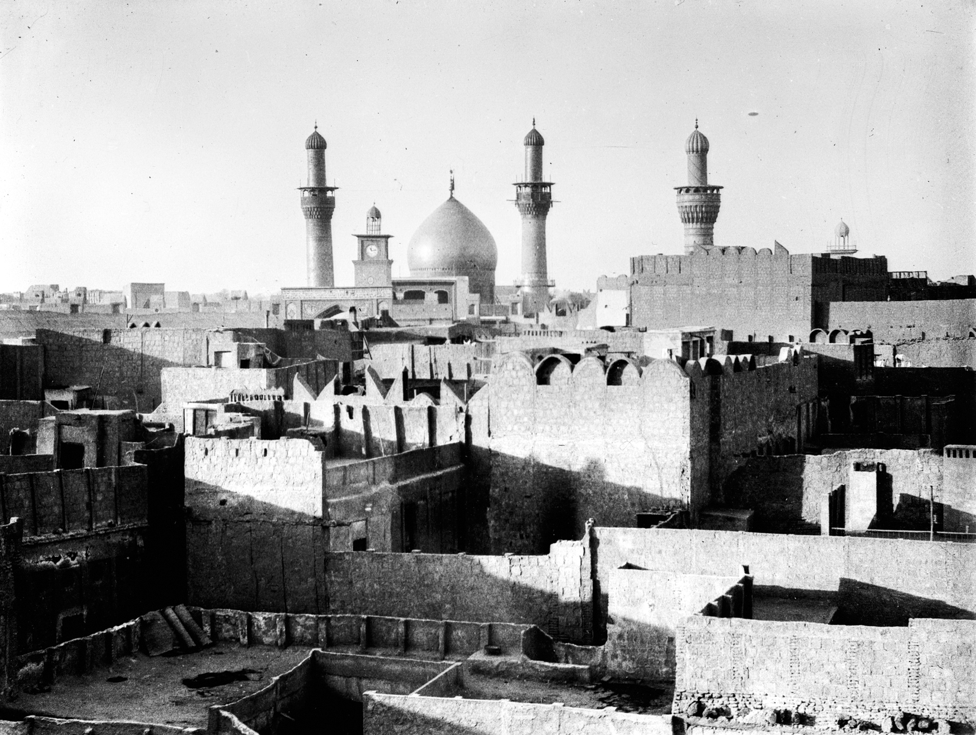 Mosque in Karbala (1932) Eric and Edith Matson Photograph Collection CALL NUMBER: LC-M31- 14369